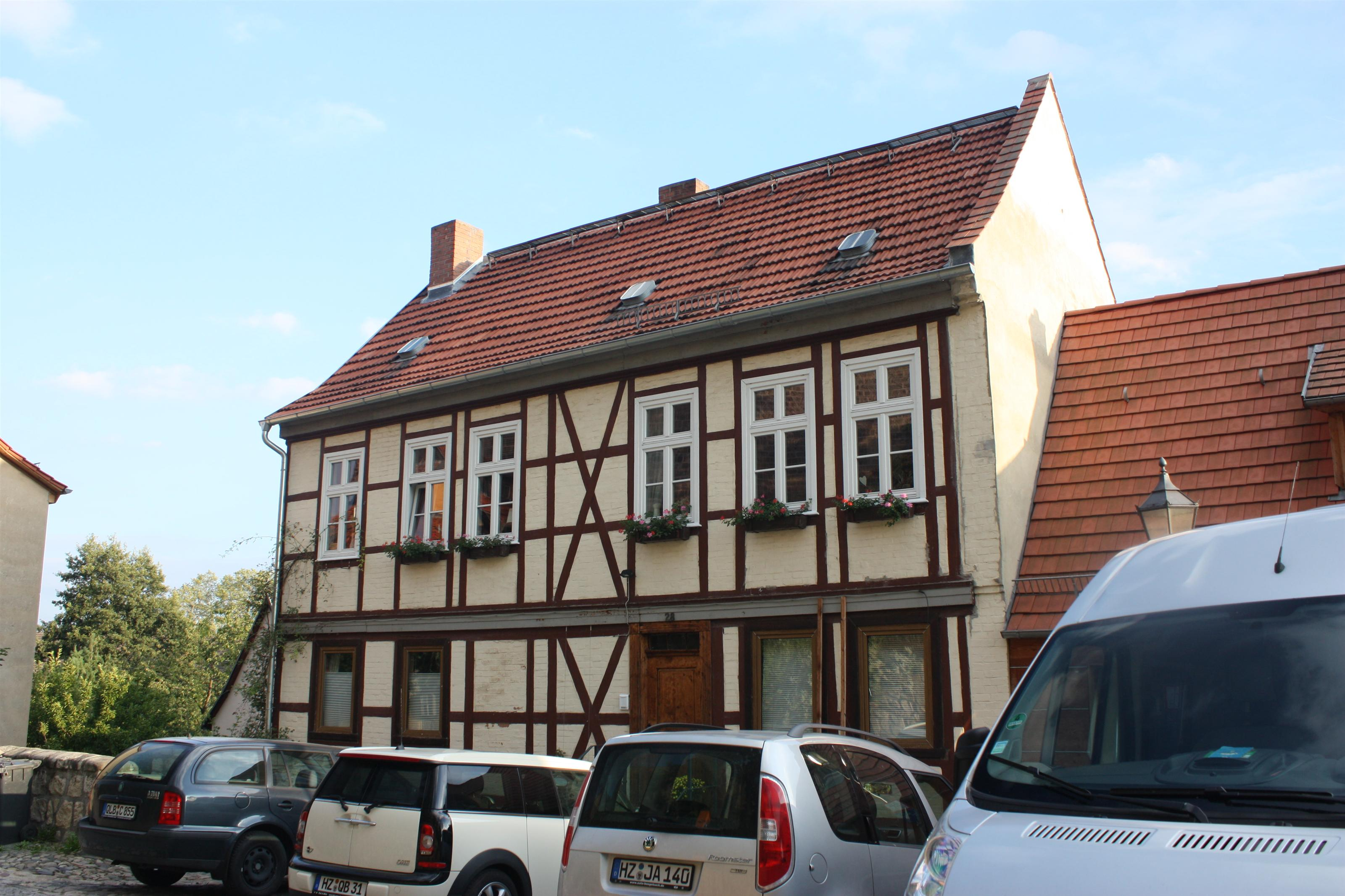 This is a photograph of an architectural monument.It is on the list of cultural monuments of Quedlinburg Wassertorstraße 28 (Quedlinburg)